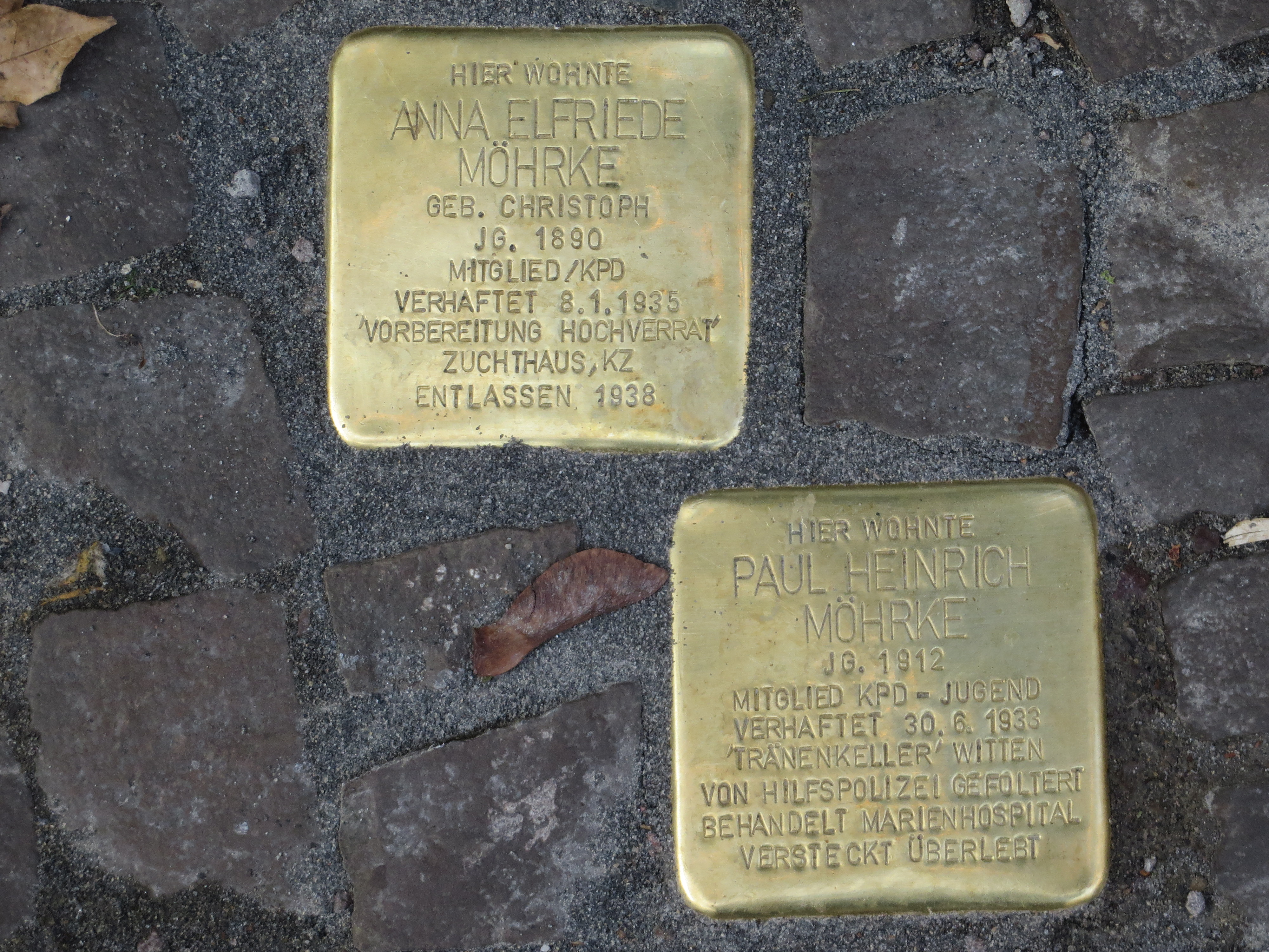 Stolpersteine at house Galenstraße 24 in Witten, Germany